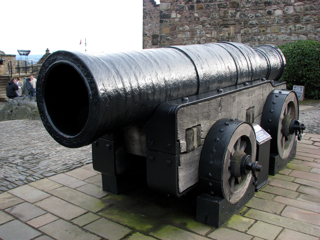 Mons Meg, a medieval supergun of the first half of the 15th century from Edinburgh, Scotland